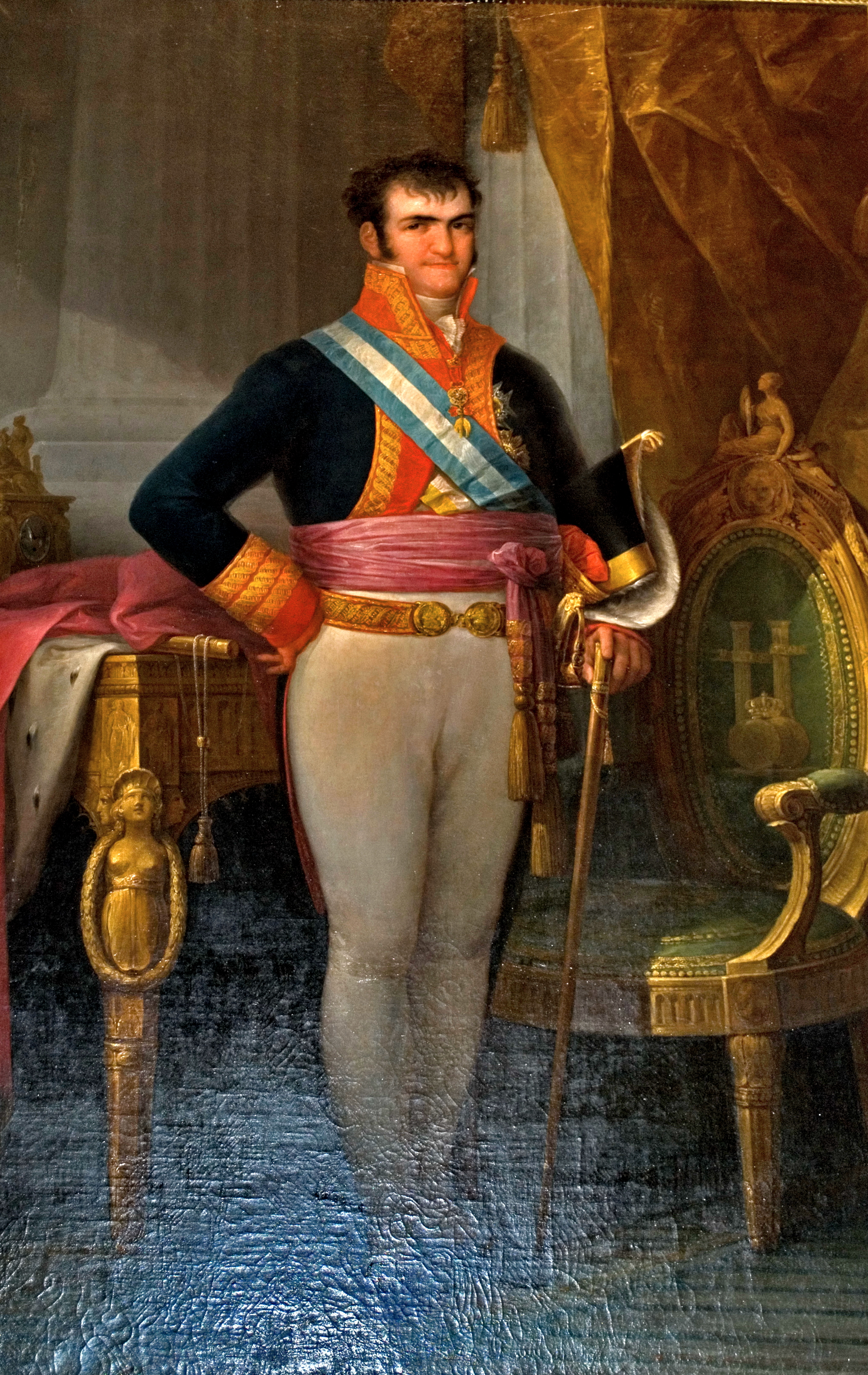 Portrait of king Ferdinand VII of Spain (1784-1833).